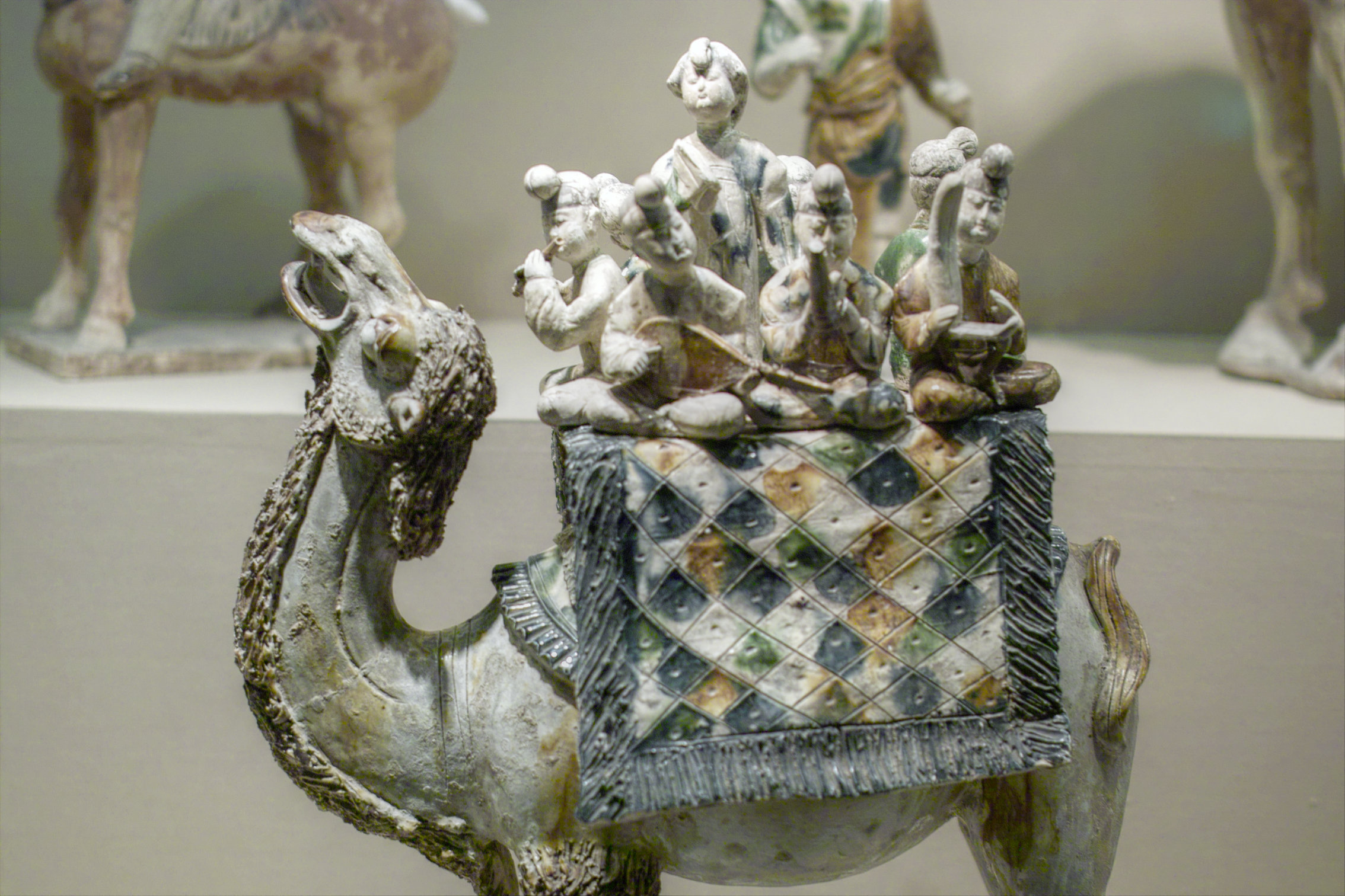 Musicians on Camel, Shaanxi History Museum, Xi'an.